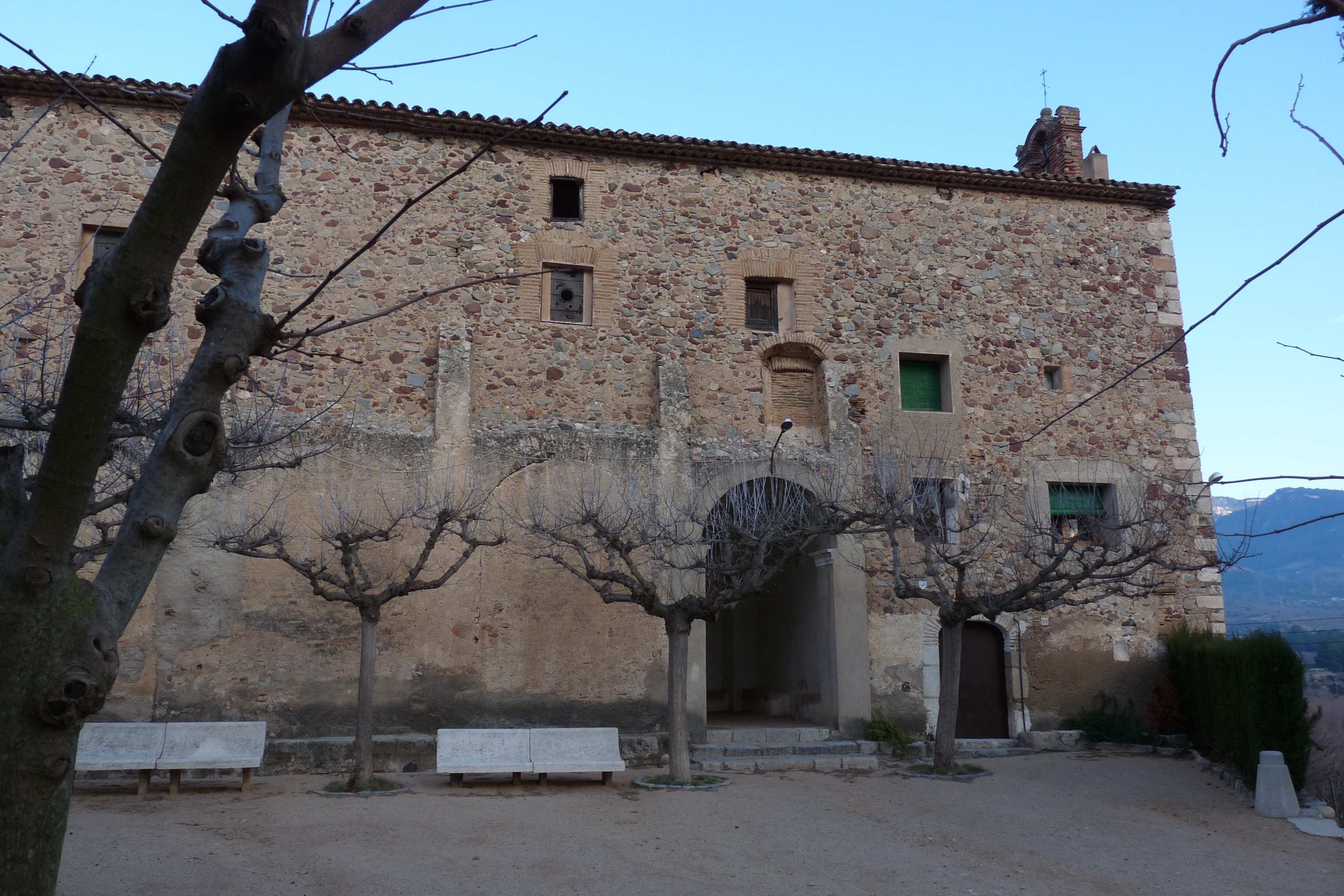 Sant Blai's hermitage. L'Aleixar.